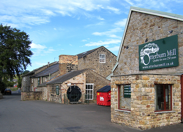 Otterburn Mill. Now a clothing outlet with a cafe. Some machinery still installed. Centre of photograph is a Cornish Boiler.